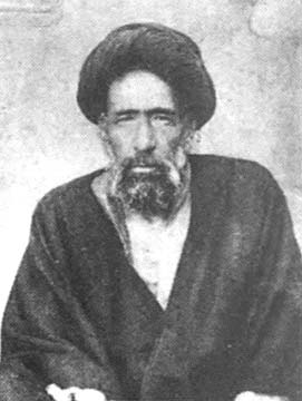 Seyyed Hassan Modaress